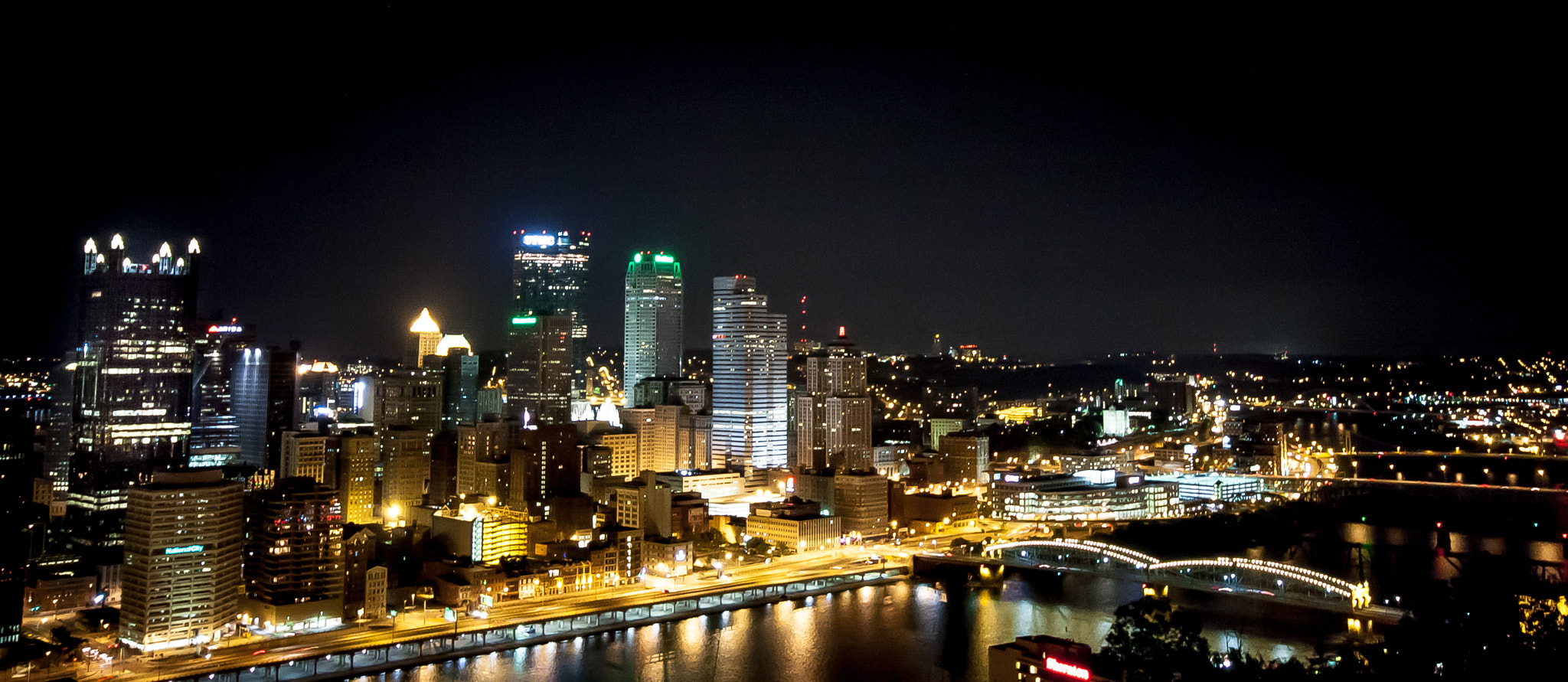 500px provided description: Pittsburgh, Pa. [#landscape ,#city ,#night ,#urban ,#skyline ,#long exposure ,#pa]